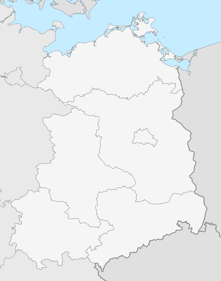 Map of New Länder with the borders of the federal states Equirectangular projection, N/S stretching 150 %.